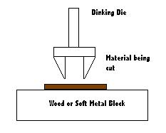 ms paint showing the manufacturing process of dinking